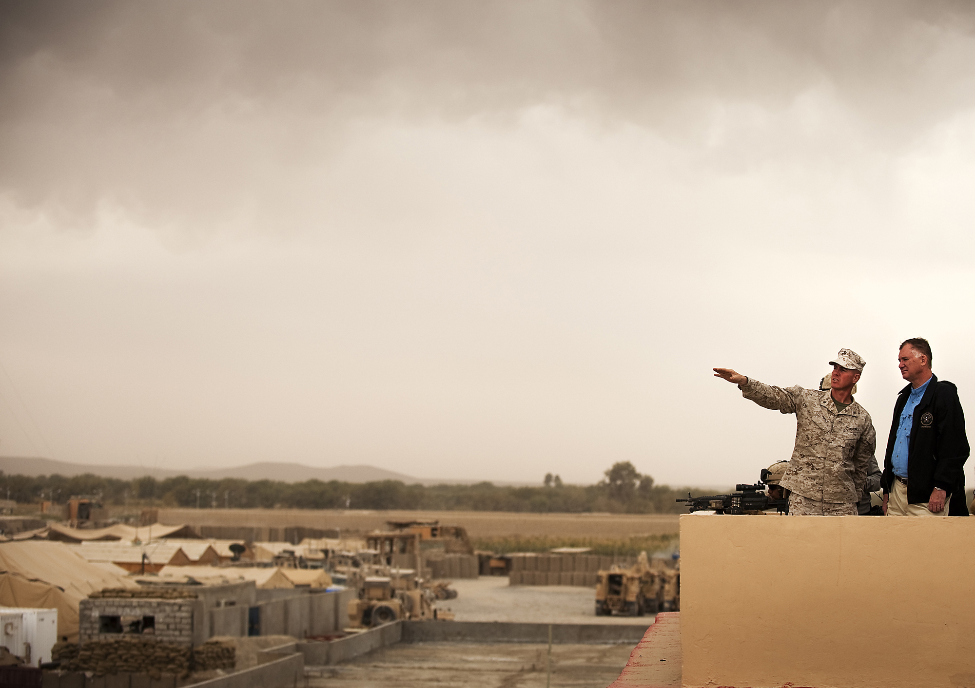 Lt. Col. Jeffrey C. Holt, the commanding officer of 3rd Battalion, 3rd Marine Regiment, points out sites to William J. Lynn, III, the deputy secretary of defense, from the roof of the Nawa District Governor’s Center during a visit to Nawa, Afghanistan, Oct. 28, 2010. Lynn visited Forward Operating Base Jaker and toured the surrounding area in Nawa to note progress by the Nawa Government and coalition forces.